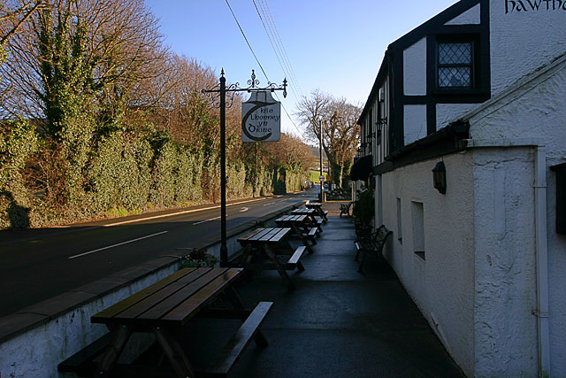 The Hawthorn. A pub/restaurant on the TT course. Looking along the road towards Greeba and Douglas.